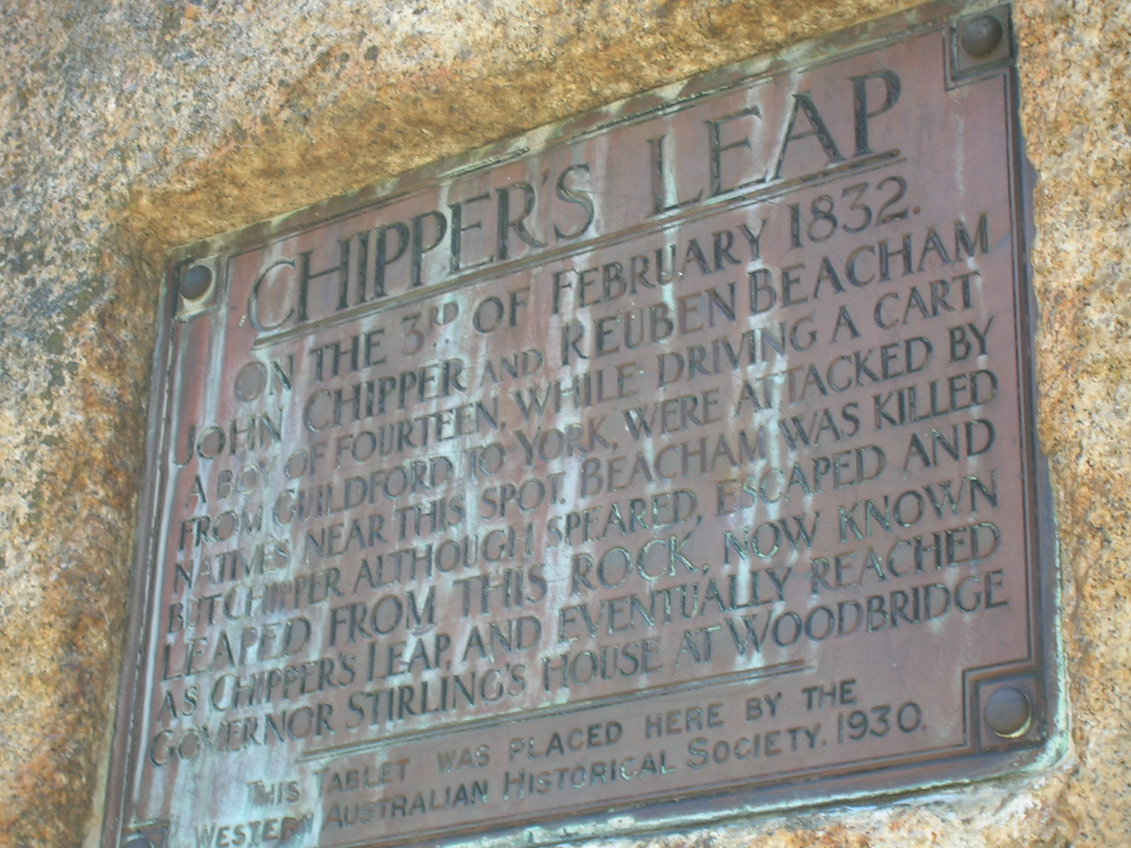 Chippers Leap on the Great Eastern |Highway - Greenmount, Western Australia.